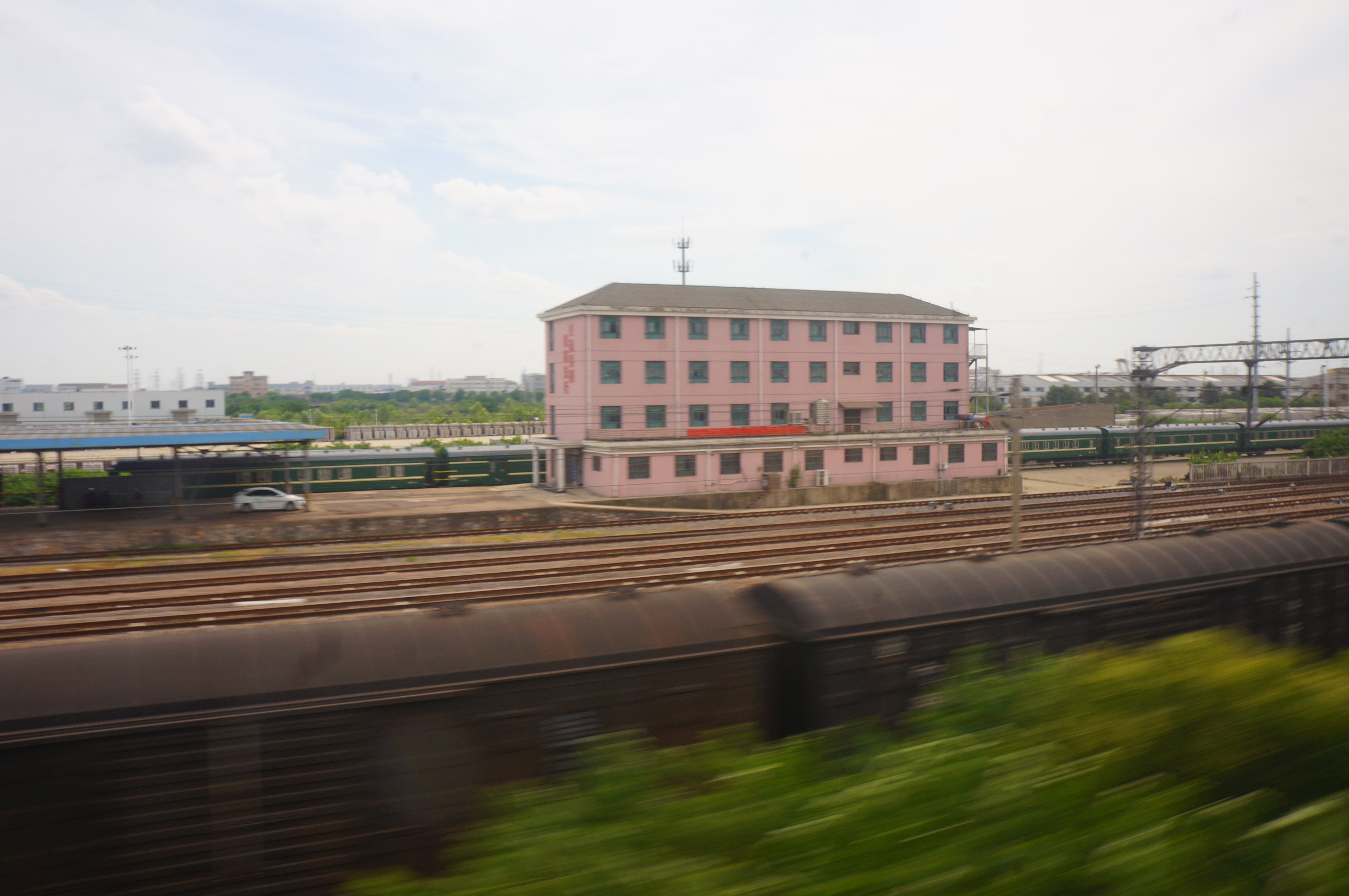 201806 Station building of Xinzhazhen Station